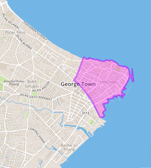 Map of central George Town, Penang. The purple zone denotes the UNESCO World Heritage Site. Geographic limits of the map: N: 5.4412° S: 5.3921° W: 100.3072° E: 100.352°